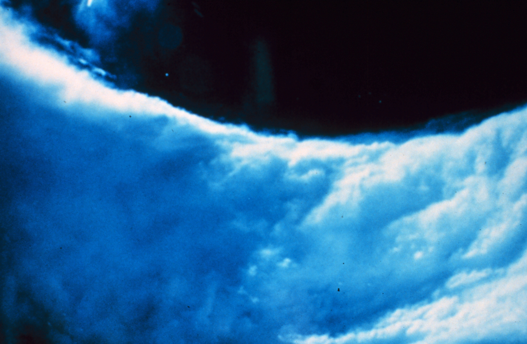 The eyewall of a tropical cyclone, taken from a P-3.